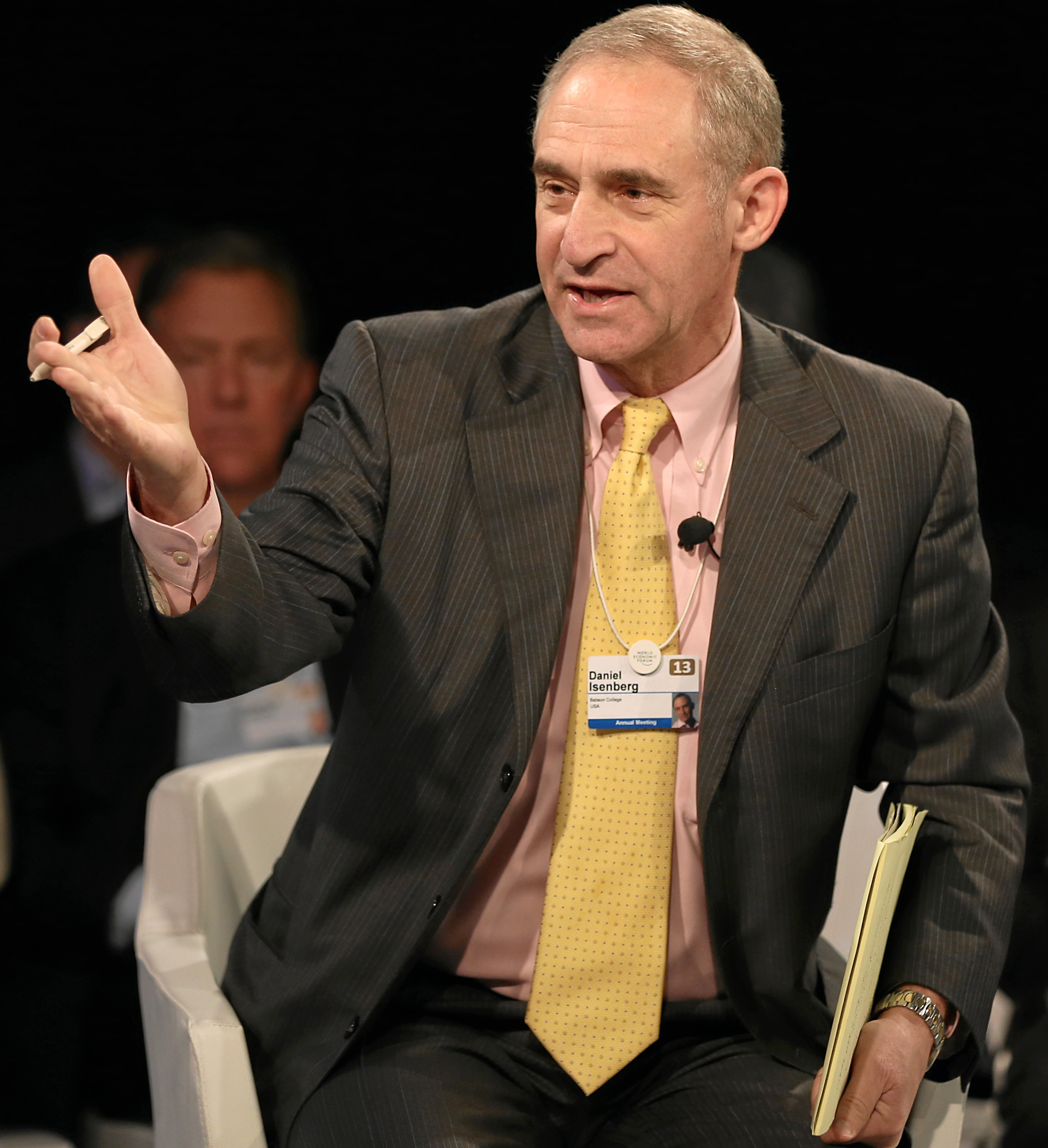 DAVOS/SWITZERLAND, 24JAN13 - Daniel Isenberg, Professor of Entrepreneurship Practice, Babson Global, Babson College, USA; Global Agenda Council on Fostering Entrepreneurship addresses the audience during the session 'Enterprise Dynamism - Unleashing Entrepreneurial Innovation' at the Annual Meeting 2013 of the World Economic Forum in Davos, Switzerland, January 24, 2013.. . Copyright by World Economic Forum. . Moritz Hager